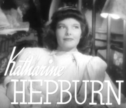 Screenshot of Katharine Hepburn from the trailer for the film Stage Door.